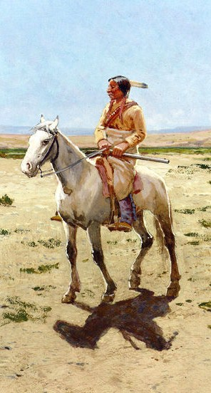 Cheyenne Scout.